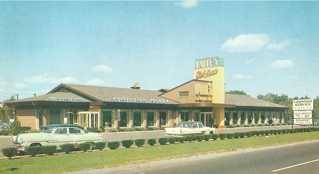 This is a scan of a post card in my personal collection. The post card shows the exterior of the Valle's Steak House restaurant that was located in Kittery, Maine. The card is from the late 1950s. It does not have a copyright mark and there is no reason to believe that a copyright renewal was ever attempted. The Valle's Steak House Corporation ceased operations in 1991 and the restaurant no longer exists.